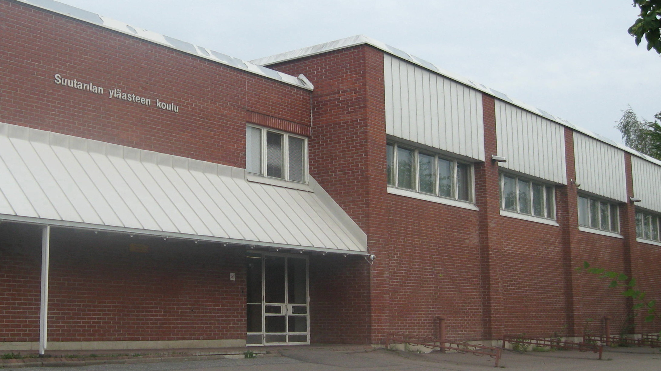 Suutarinkylä school, Töyrynummi, Helsinki, Finland. Аҧсшәа: Suutarinkylän koulu, Töyrynummi, Helsinki, Suomi.